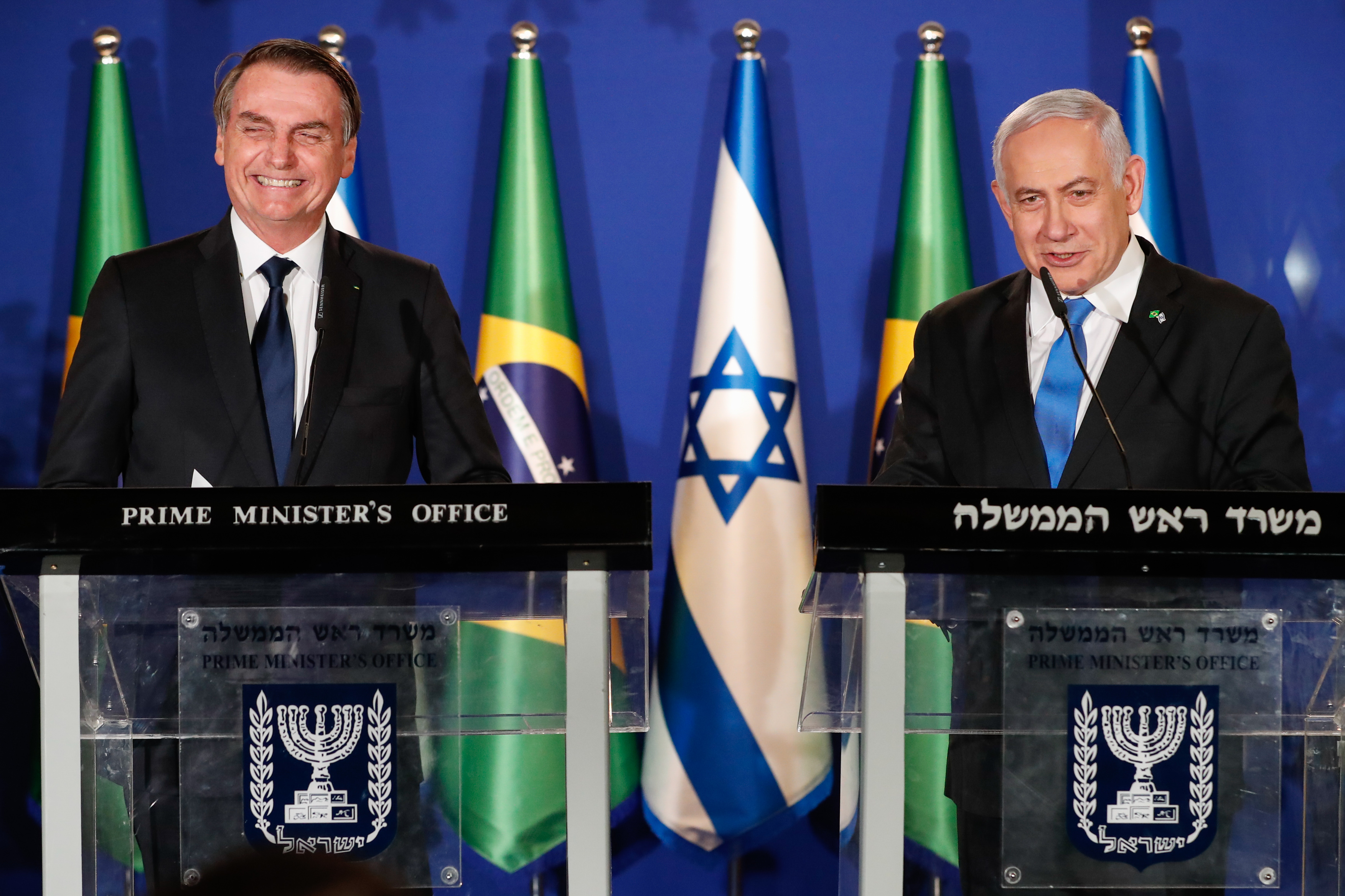 Jair Bolsonaro visit to Israel, dinner hosted by Benyamin Netanyahu, March 31, 2019